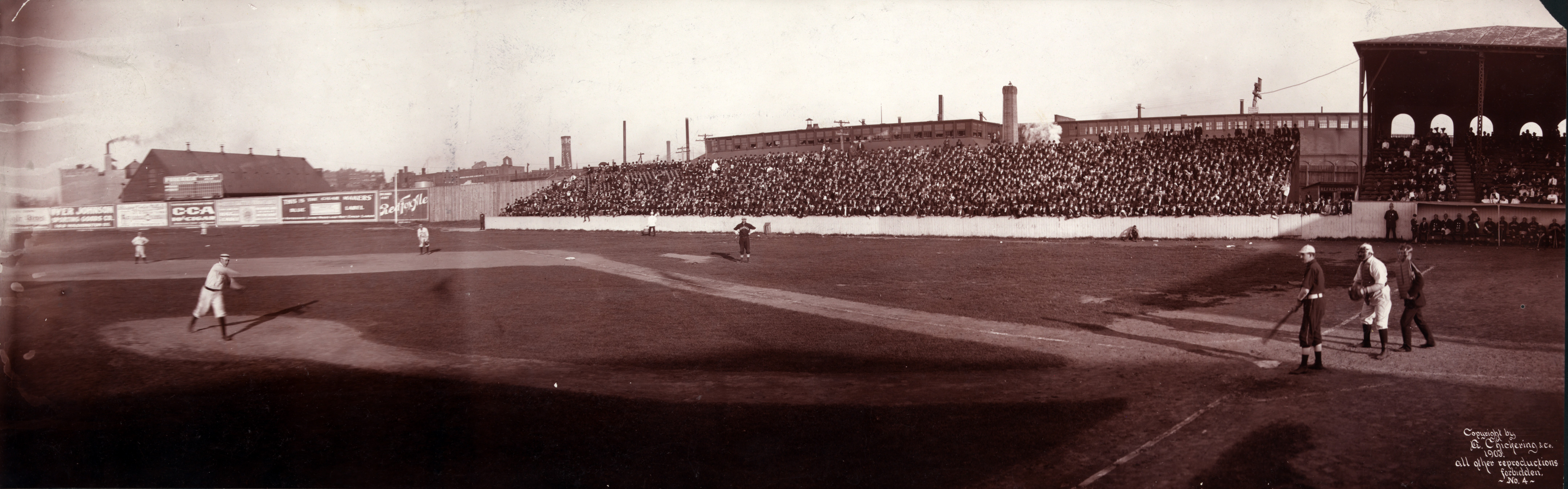 1903 Boston vs Chicago, Huntington Avenue Grounds, players and bleachers